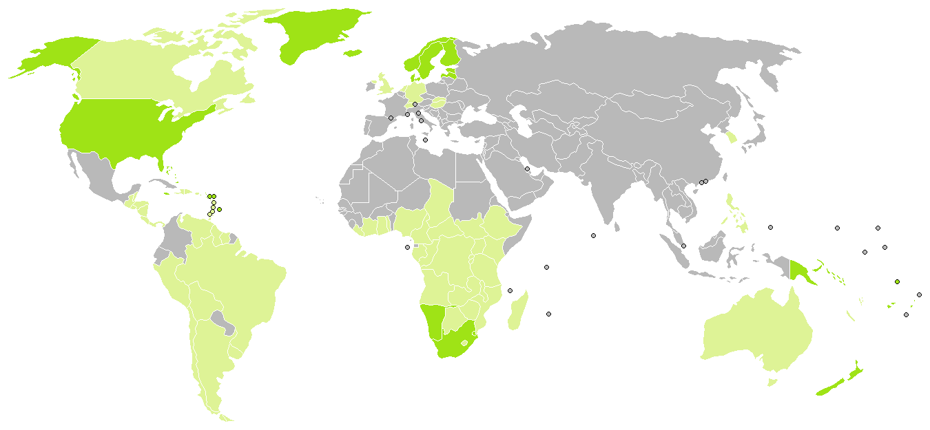 Protestants on the world Dominant religion (over 50%) A large religious minority (over 10%)